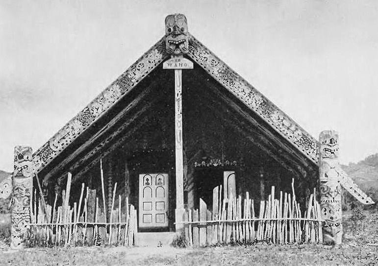 Image from scanned book at Wikisource